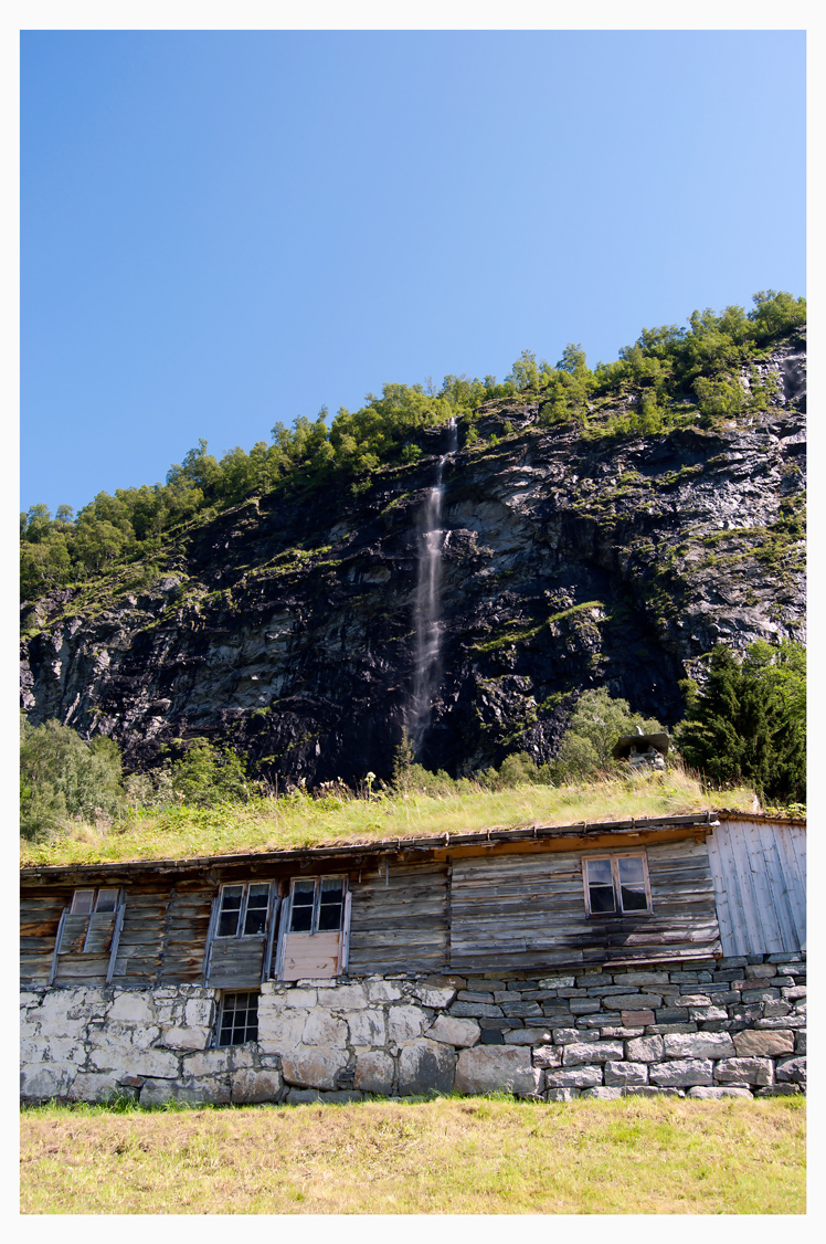 Skageflå mountain farm in Geiranger